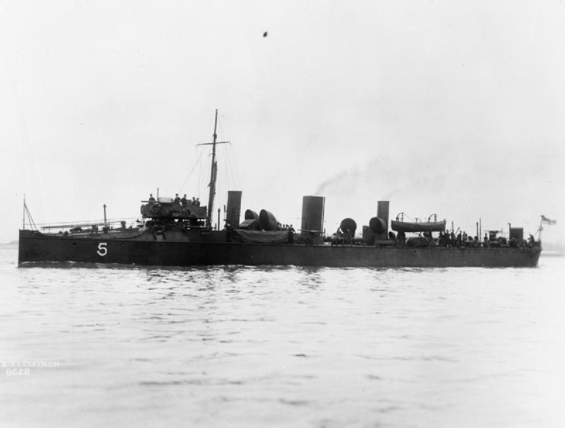 Photograph of British torpedo boat destroyer HMS Bullfinch.